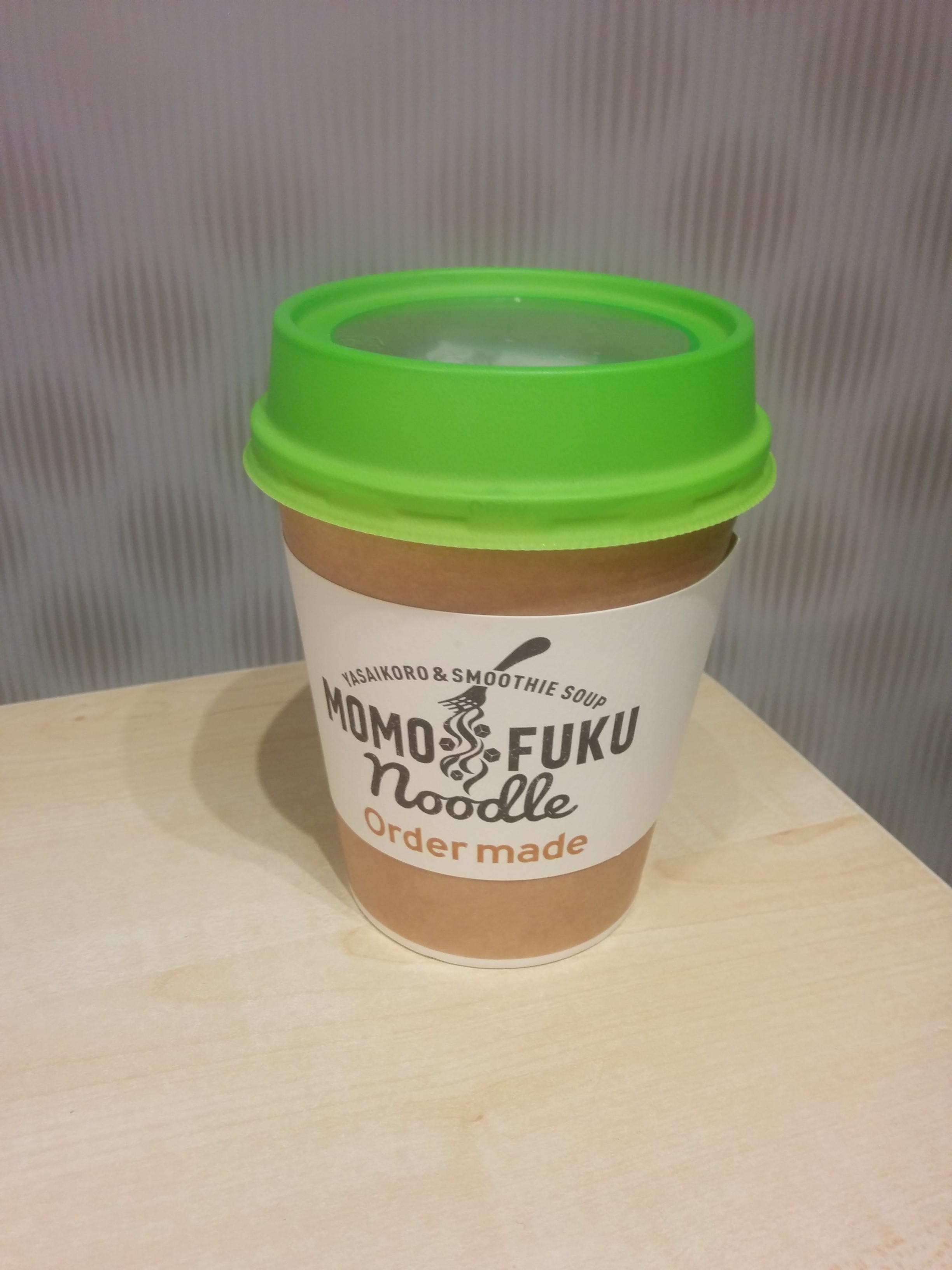 Only available in Osaka. Made to look like a Starbucks cup, you can choose the ingredients